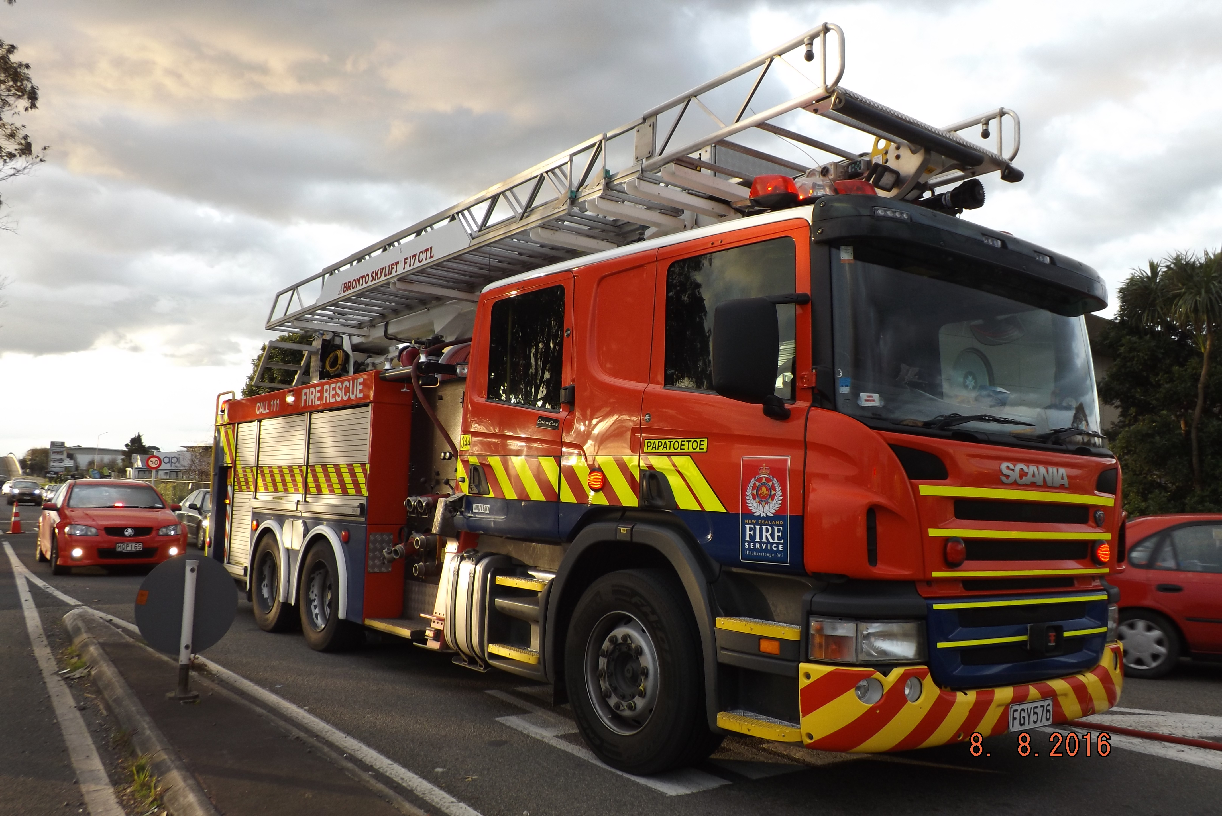 Papatoetoe 344, Type 4 Bronto Aerial Appliance attends a MVA.